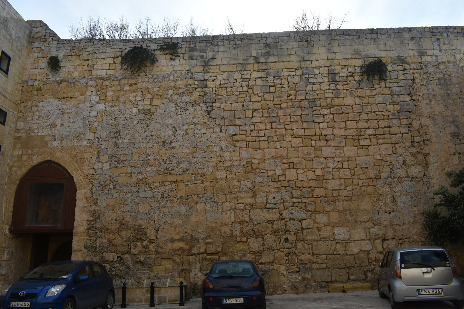 Mdina architectural features